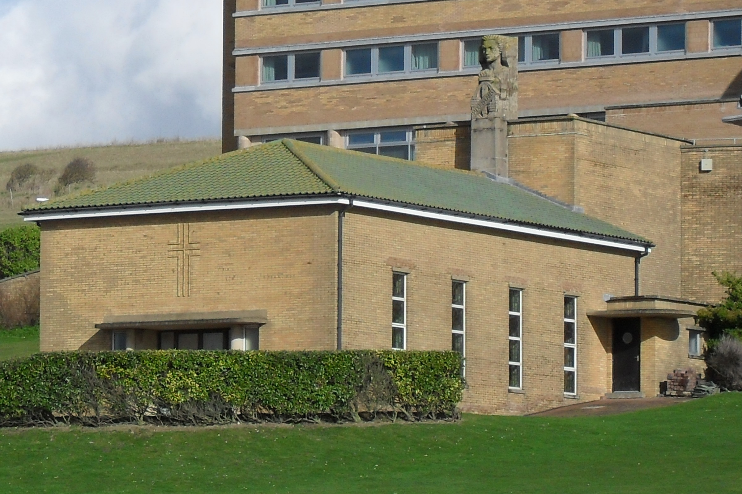 Chapel at Ian Fraser House, St Dunstan's, Greenways, Ovingdean, City of Brighton and Hove, England. A Modernist chapel (especially the interior fittings) at Ian Fraser House, home of the St Dunstan's rehabilitation home in Ovingdean, east of Brighton. Listed at Grade II by English Heritage (IoE Code 480787)